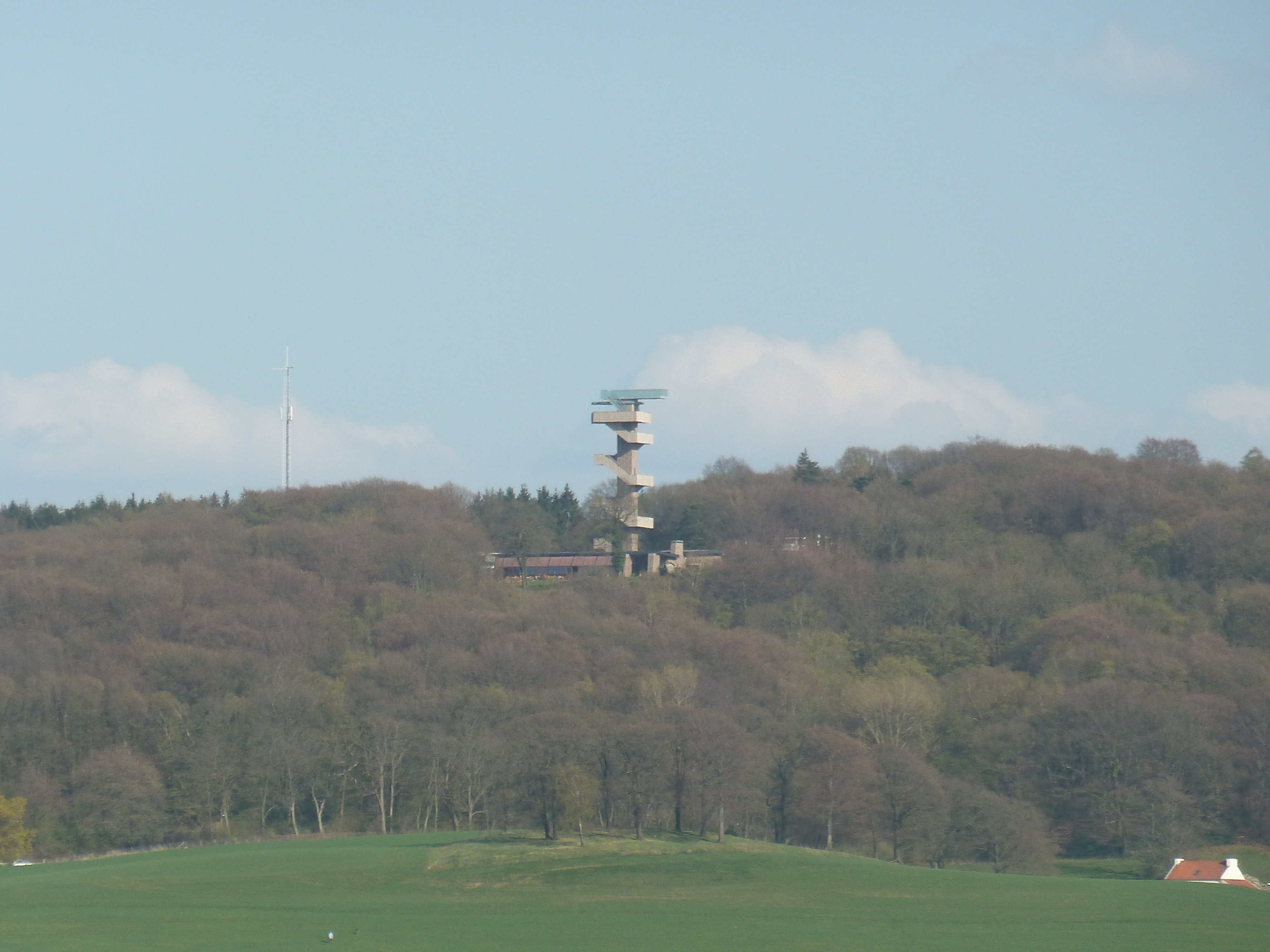 Bokkebosje and Wilhelinatoren on the Vaalserberg, Vaals, Limburg, the Netherlands